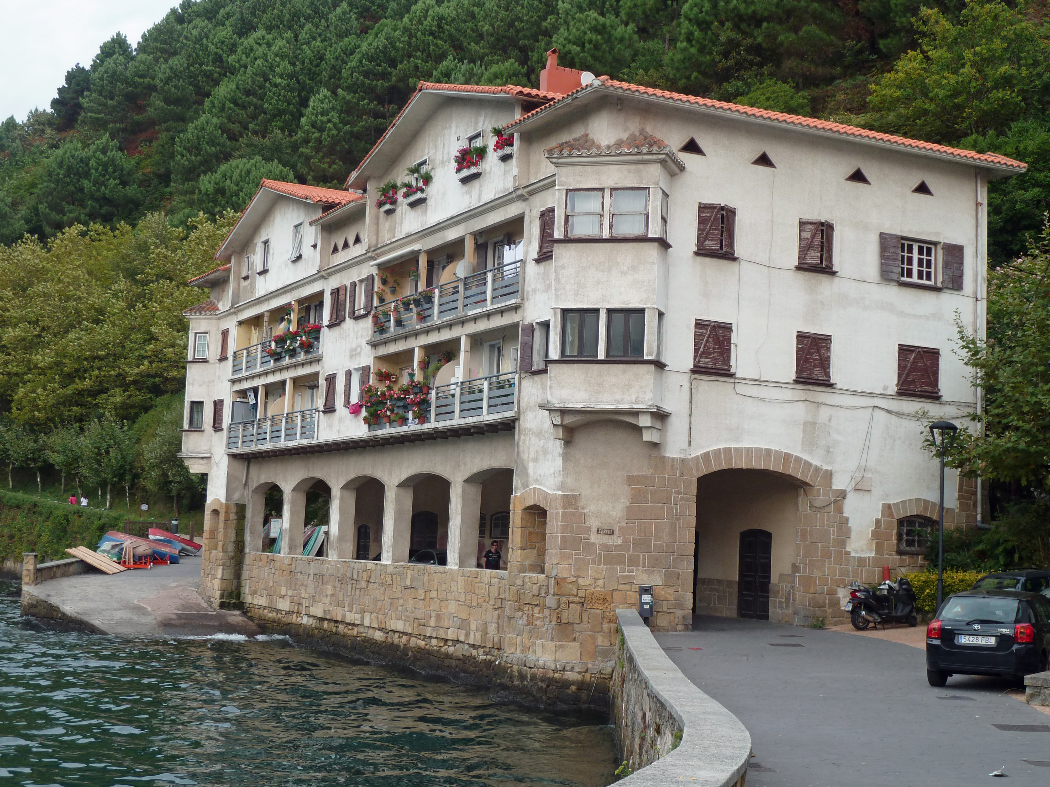 residential building designed by Luis Tolosa